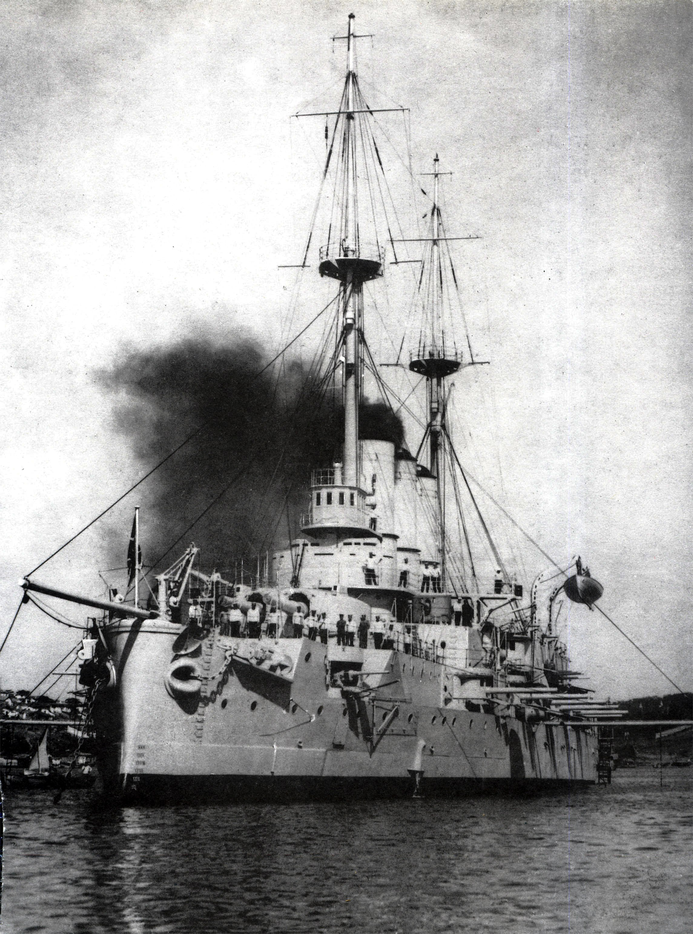 Imperial Russian battleship Evstafiy.